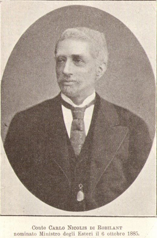 Portrait of the Italian Foreign Minister Carlo Felice Nicolis Robilant (1826-1888)